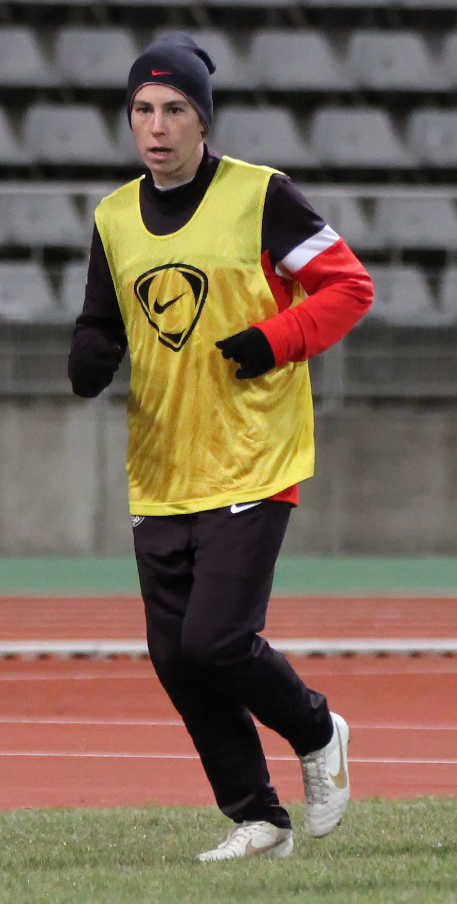 PSG-Juvisy, december 9th, 2012. Warm up of Nonna Debonne (PSG)